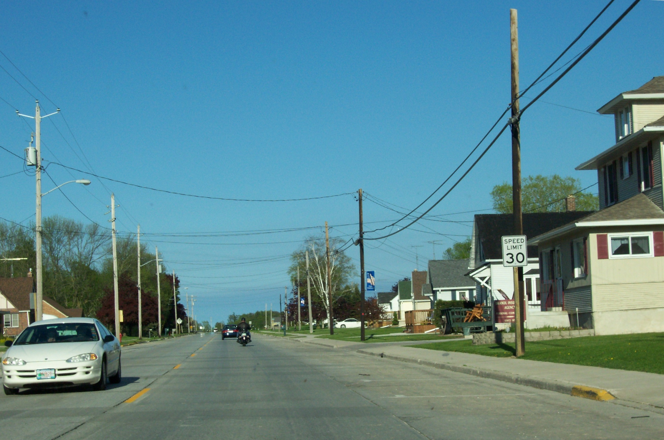 Looking east at downtown Whitelaw, Wisconsin, USA on U.S. Route 10.